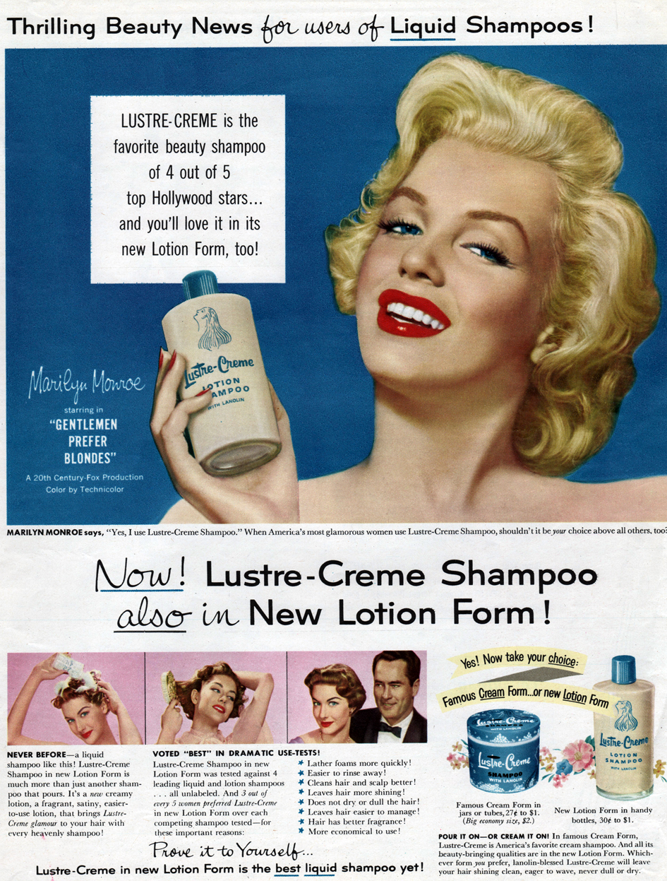 Monroe in an advertisement for Lustre Creme shampoo in a September 1953 issue of Modern Screen. Note this is a larger, better quality copy of the photo seen on Modern Screen page 27. A renewal search was done at using the title Modern Screen. There were no listings for the publication; there's no evidence of continued copyright on the magazine